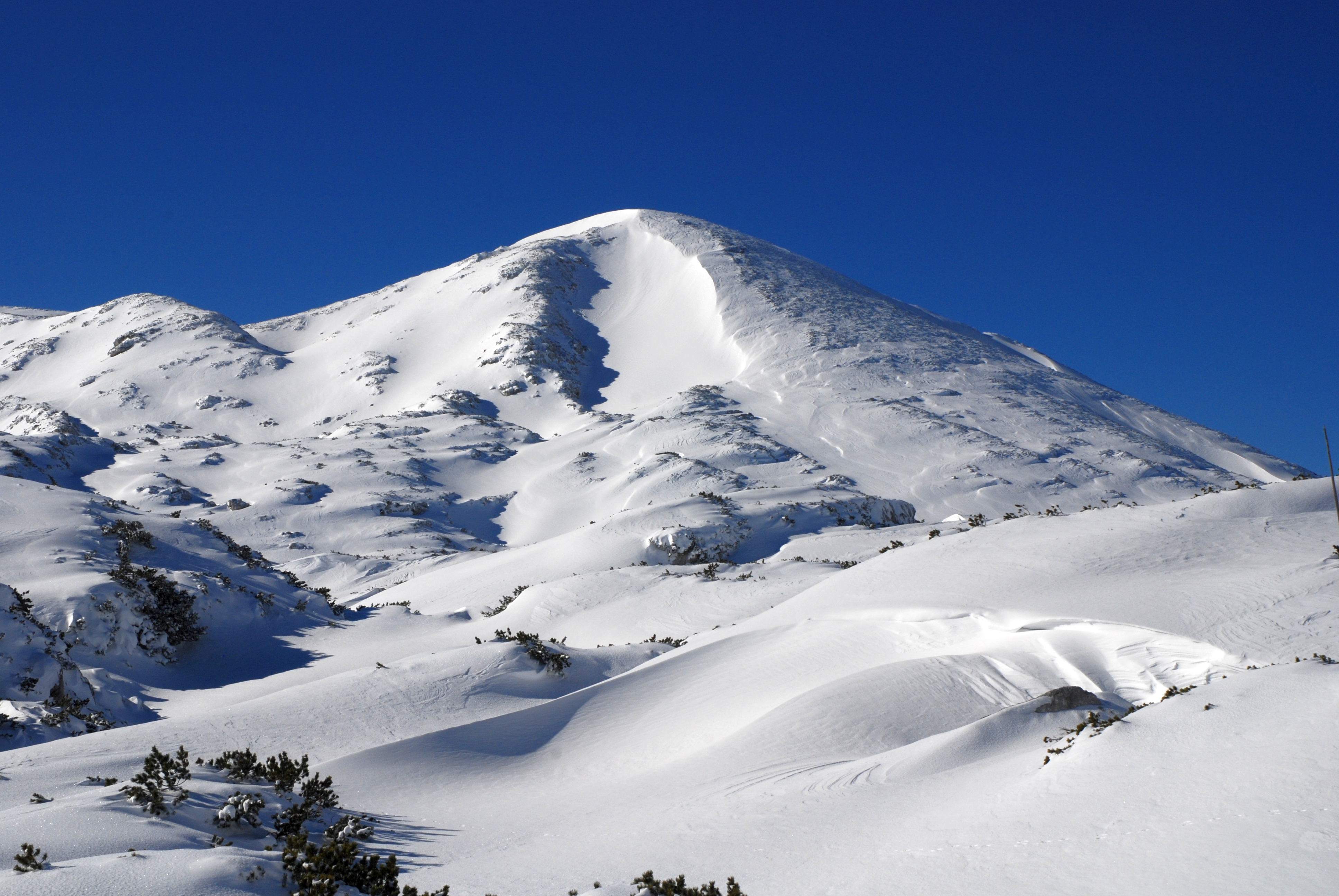 Großer Höllkogel, Upper Austria, Austria. Seen from the plateau, somewhat above Höllkogelgrube